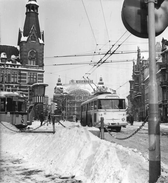 Škoda 9Tr trolleybus in Erfurt